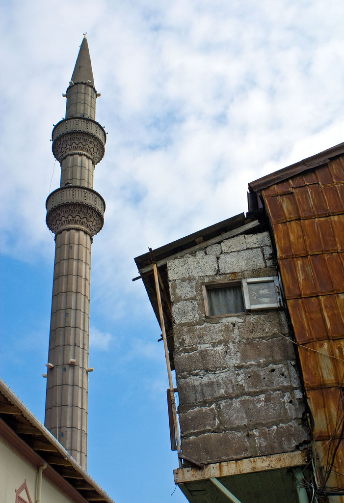 Batumi Mosque